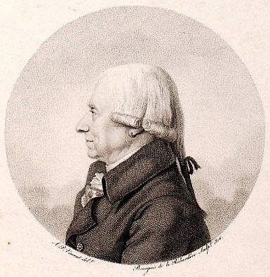 French playwright and songwriter Pierre Laujon (1727-1811) by Antoine-Achille Bourgeois de La Richardière (1777-18??) after Antoine-Paul Vincent (17??-18??).